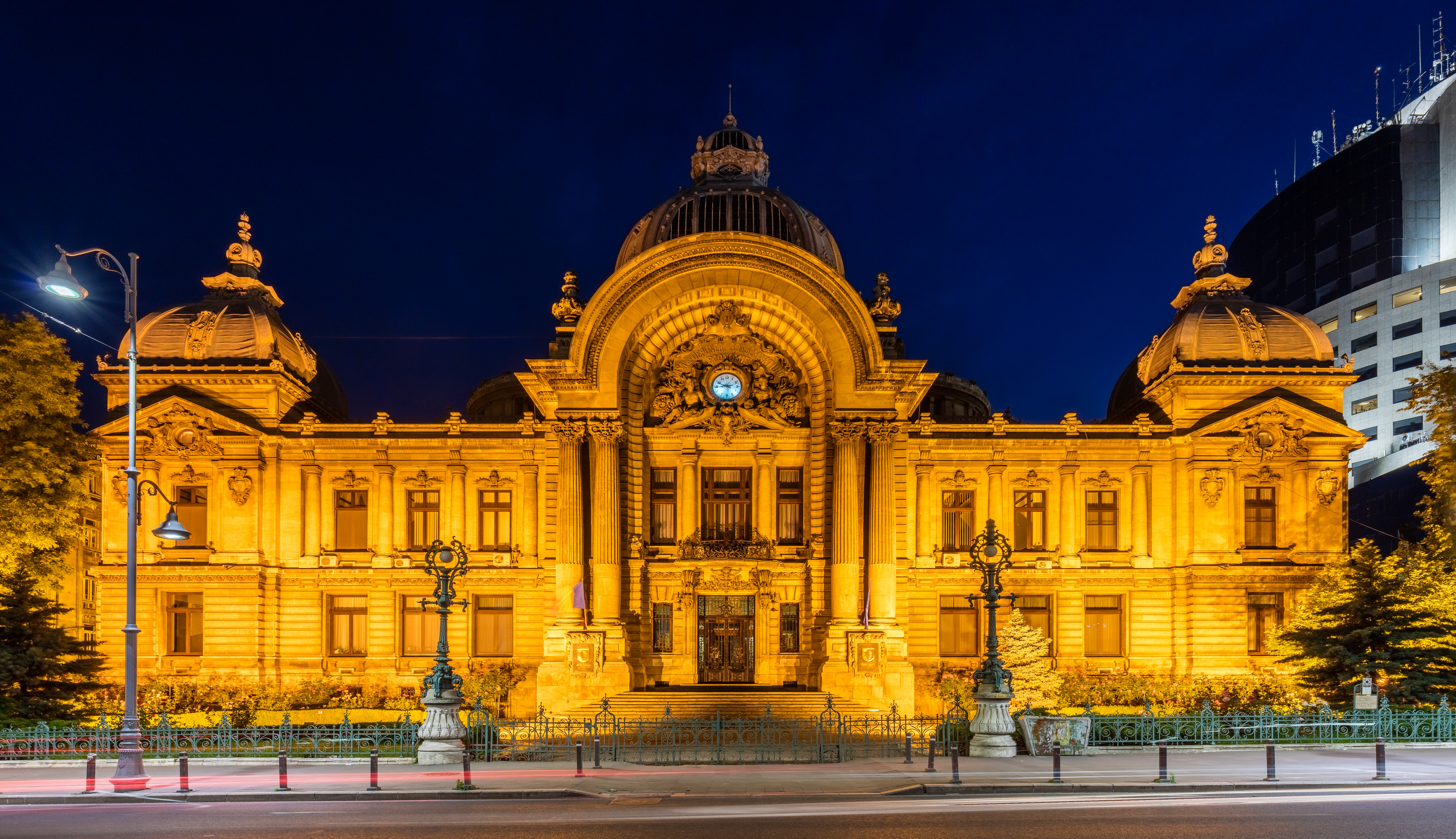 Night view of the facade of the CEC Palace in Bucharest, capital of Romania. The building dates from 1900, is situated on Calea Victoriei in the center of the city and hosts the headquarter of CEC Bank.